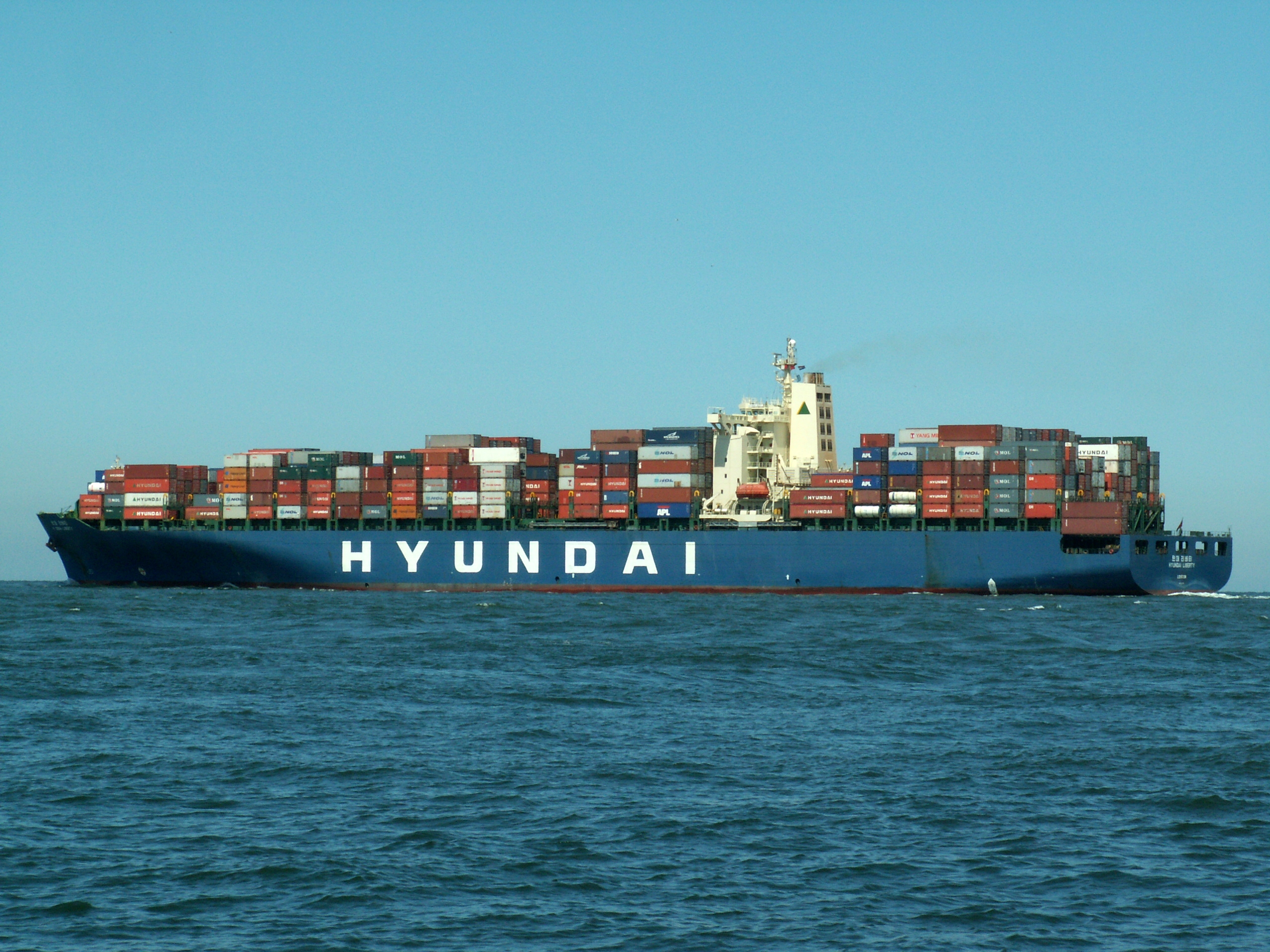 Hyundai Liberty - IMO 9110389 -, leaving Port of Rotterdam, Holland 08-Jul-2006.